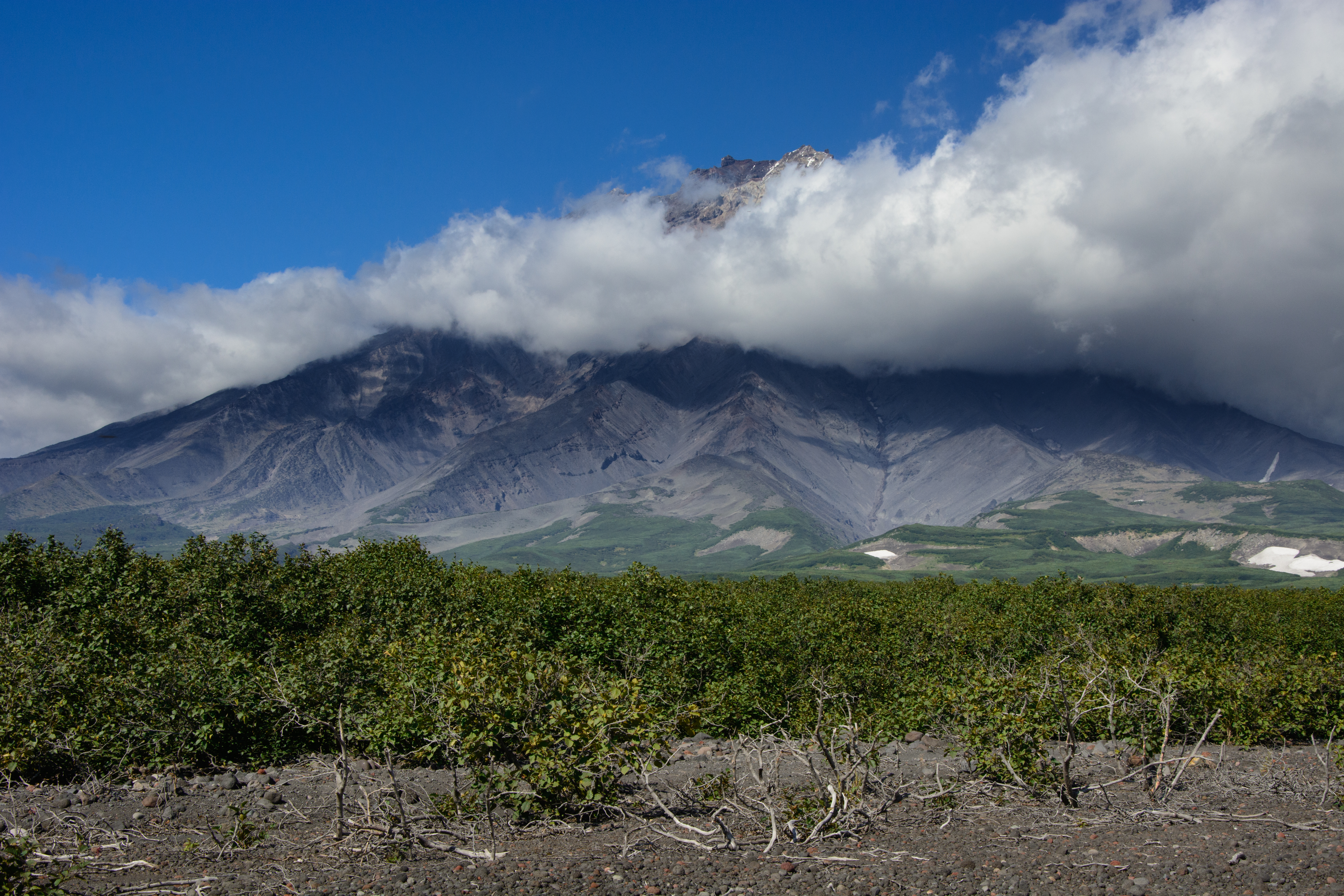 Koryakskaya sopka, seen from the road leading to the tourist base between Avachinski and Koryaksky.